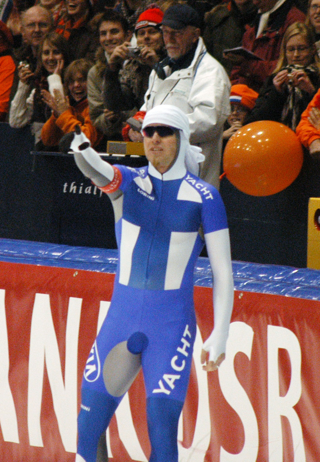 Mika Poutala (FIN) at a World Cup Speed Skating in Heerenveen, the Netherlands. At the moment of the picture he initiated a wave with the crowd.